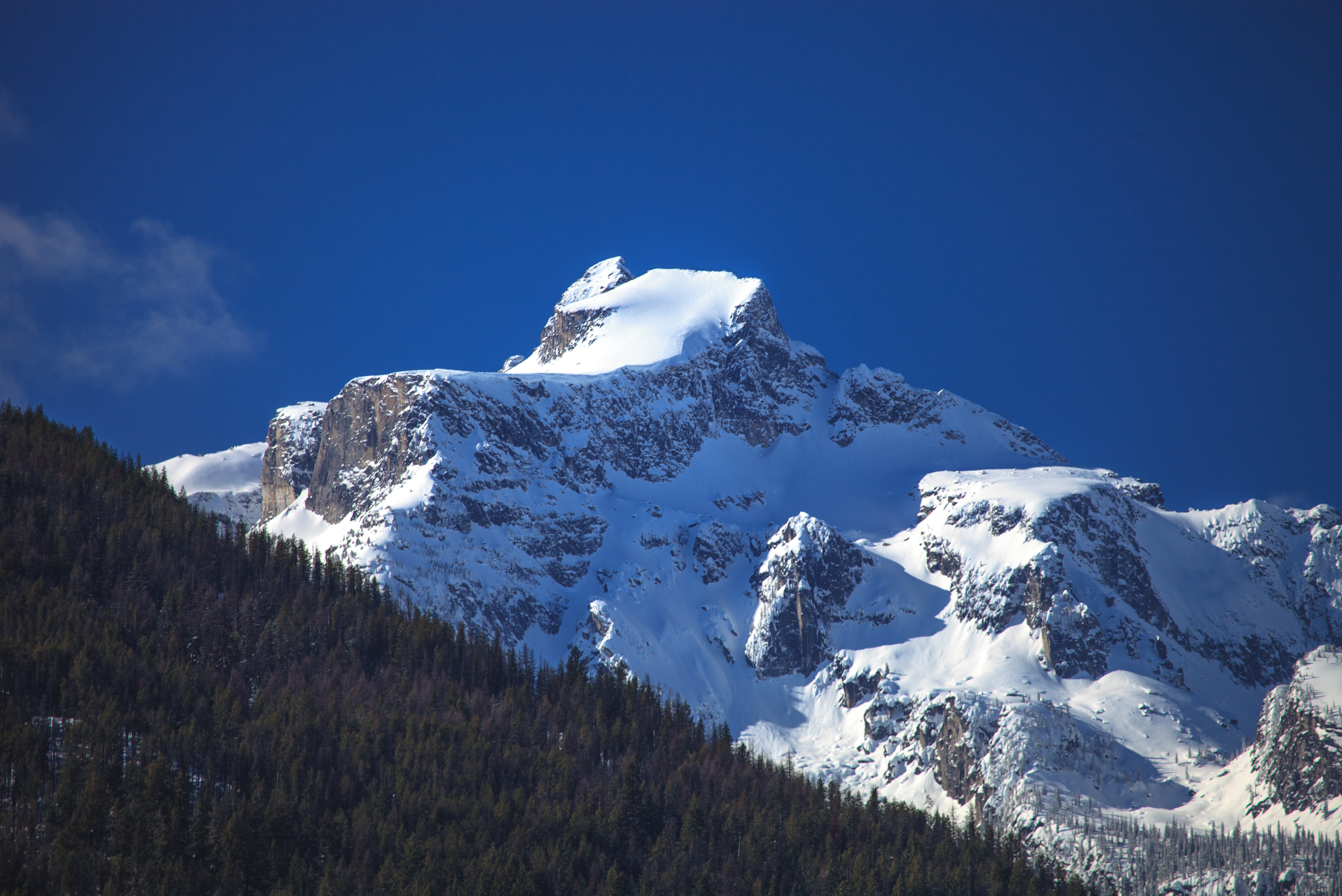 Valhallas Mtns.